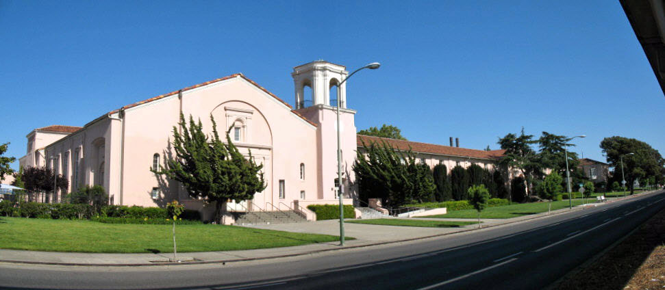 National Register of Historic Places listings in Alameda County, California. University High School, 5714 Martin Luther King Jr. Way, Oakland, CA (now the North Oakland Senior Center). Photographed 2009-05-17 from beneath the BART tracks along Martin Luther King Jr. Way near the intersection with 58th St.